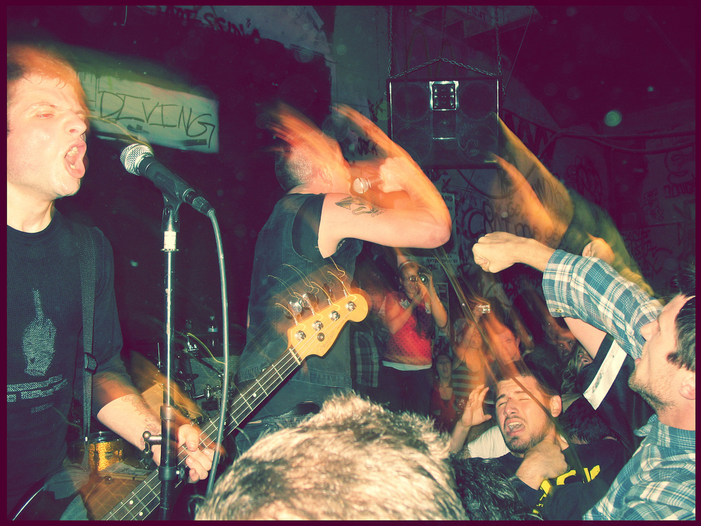 Modern Life Is War, live at 924 Gilman Street. Concert date: October 5th, 2007.